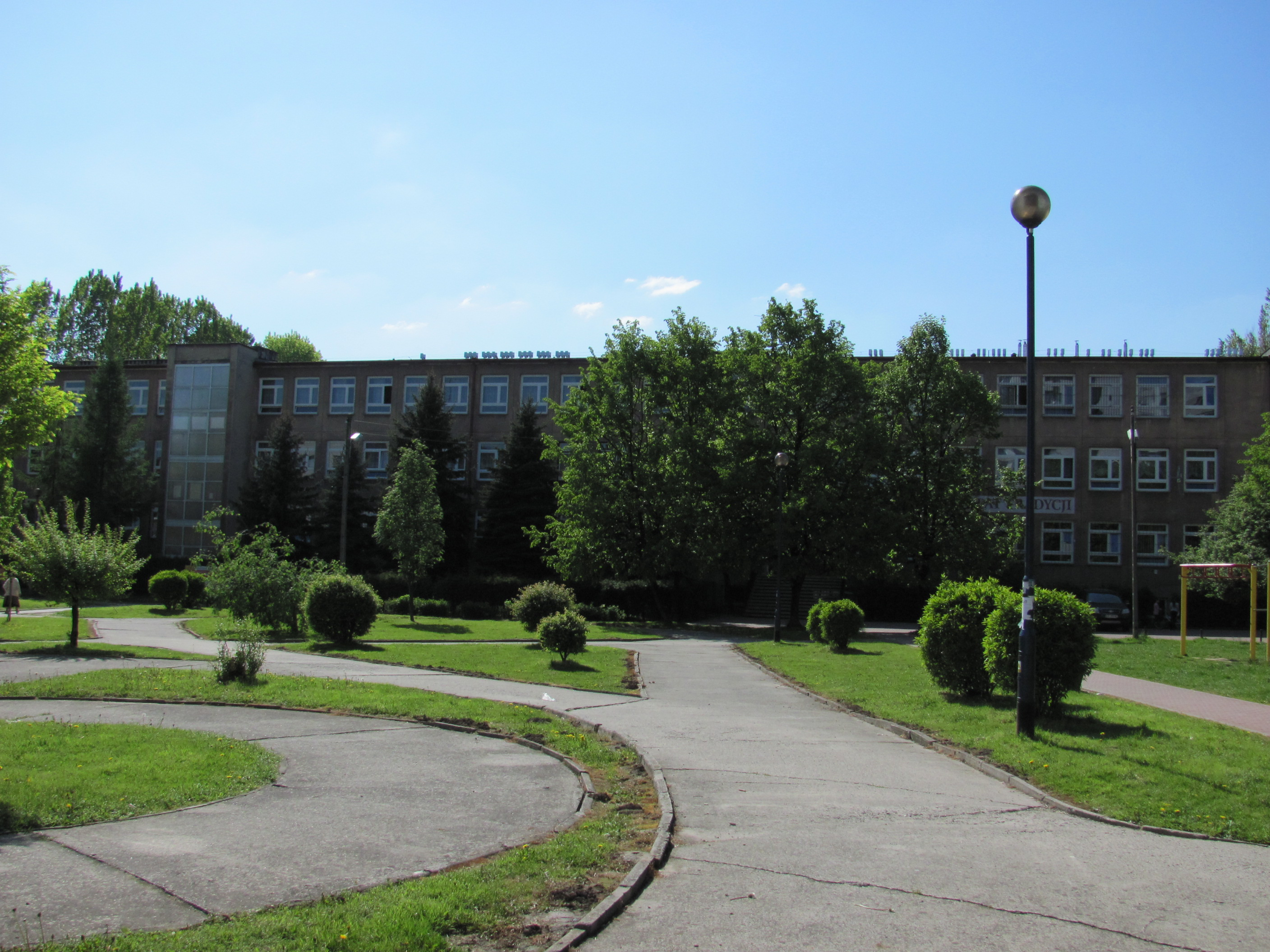 Building of Jan Kochanowski High School in Krakow in spring